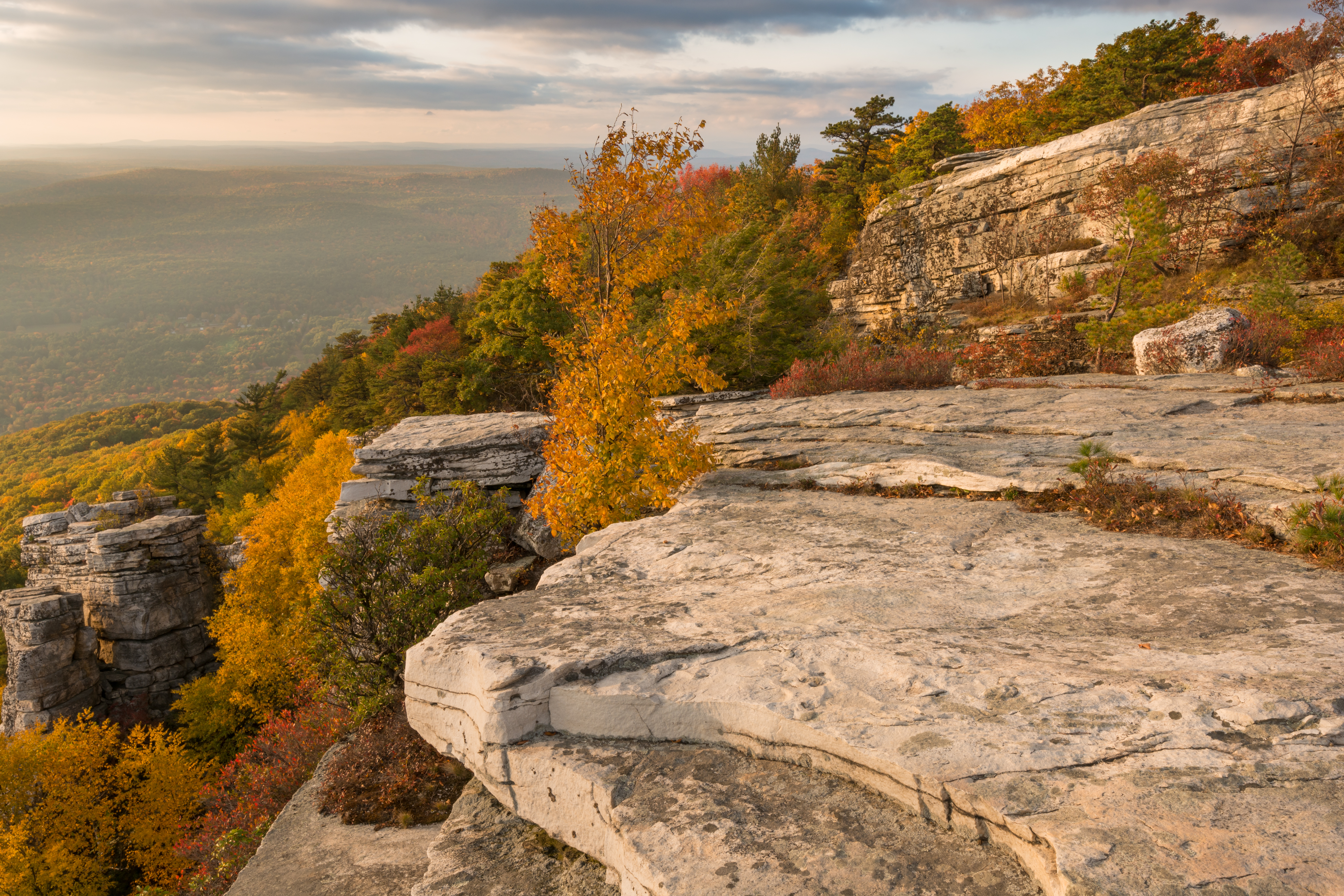 The Shawangunk Ridge in southeastern New York, as seen from the Bear Hill Preserve in Cragsmoor.